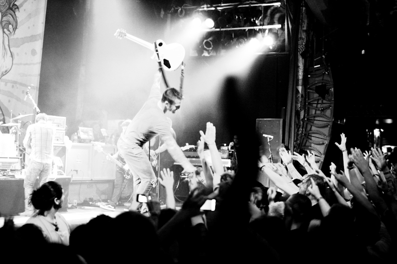 Jordan Buckley at the House of Blues - Sunset Strip during the 2009 Epitaph Tour